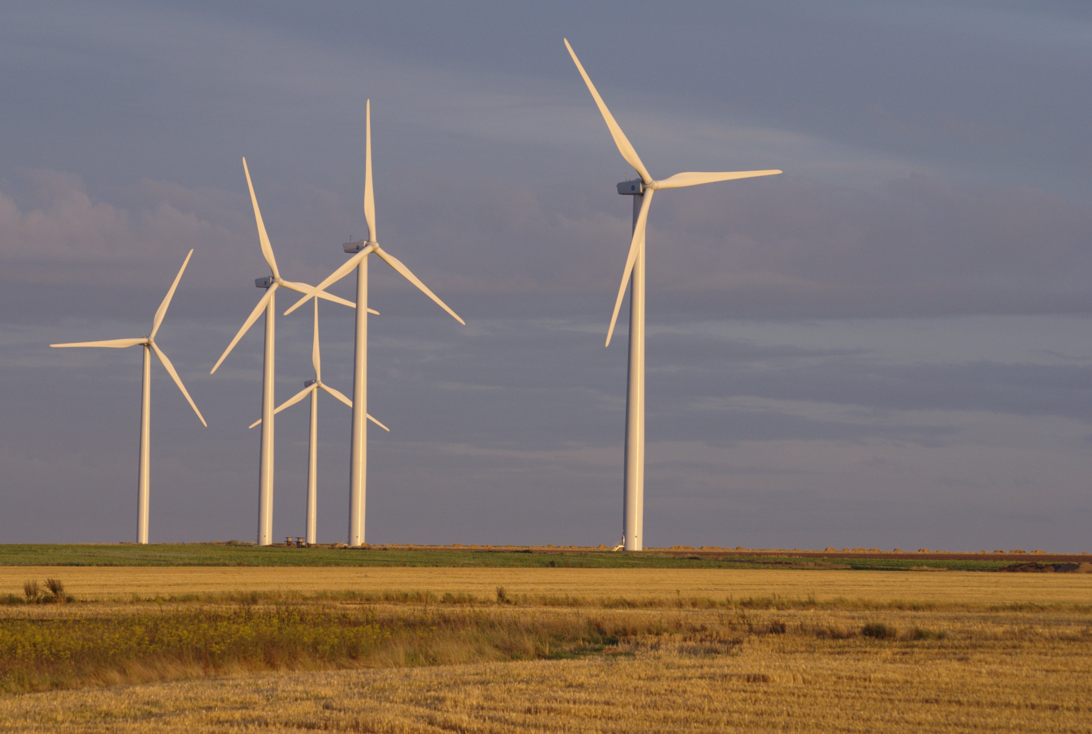 Small wind farm near Caen, Normandie